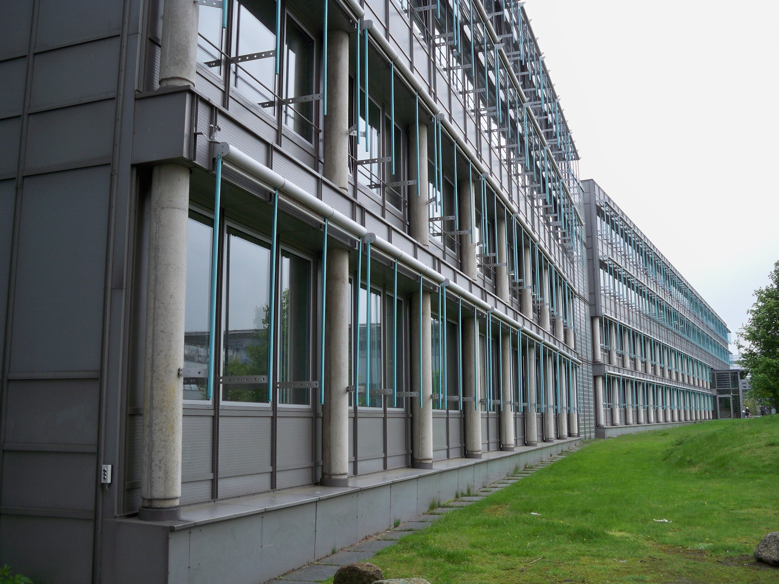 Wolfsburg, Lower Saxony, city hall, section B